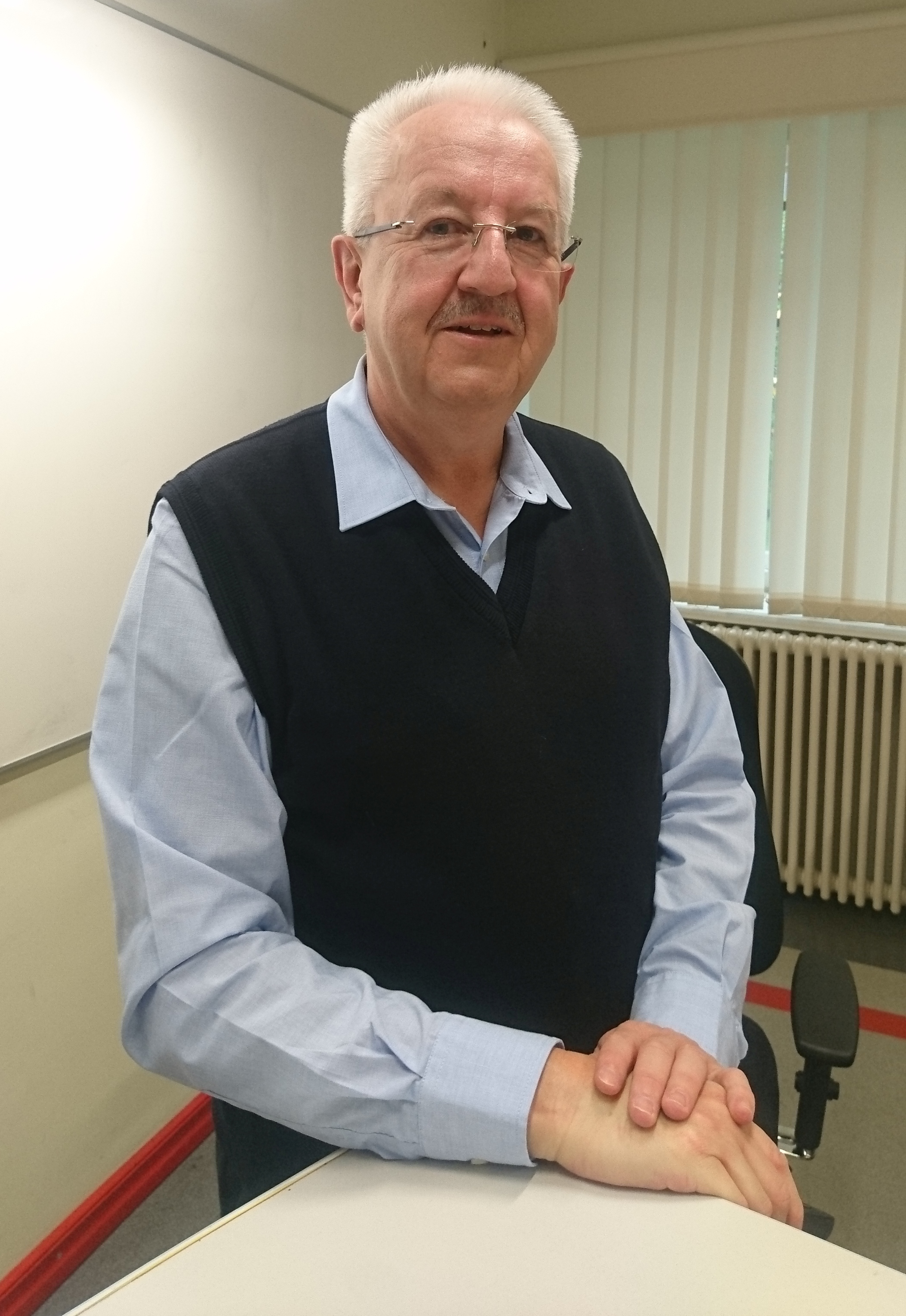 Prof. Joachim Fugmann, German Classicist, after a lecture on Roman theatre given in University of Tartu, 11 October 2018.